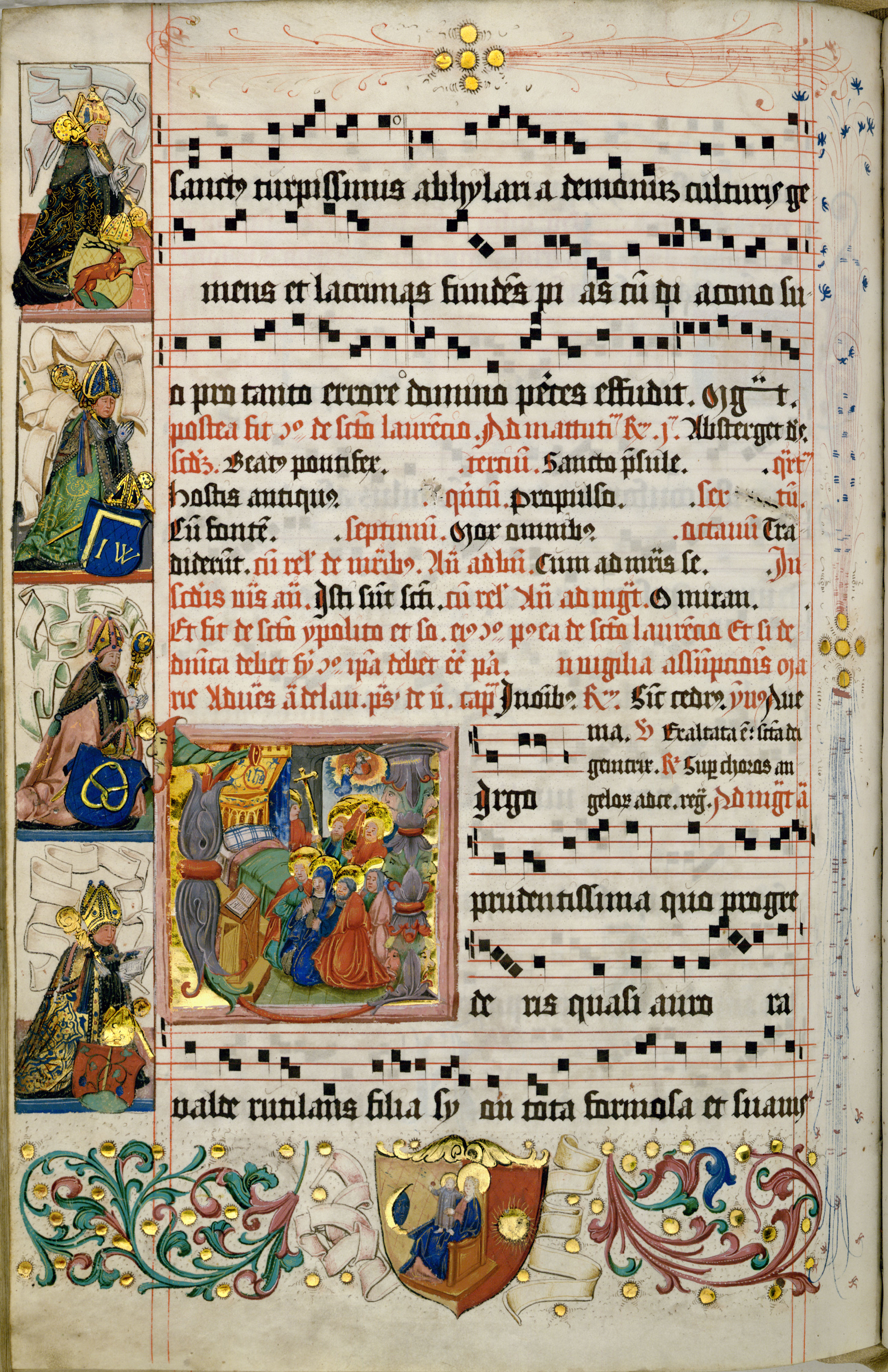 Lorcher Chorbuch, WLB Stuttgart Sign. Cod. I fol. 63